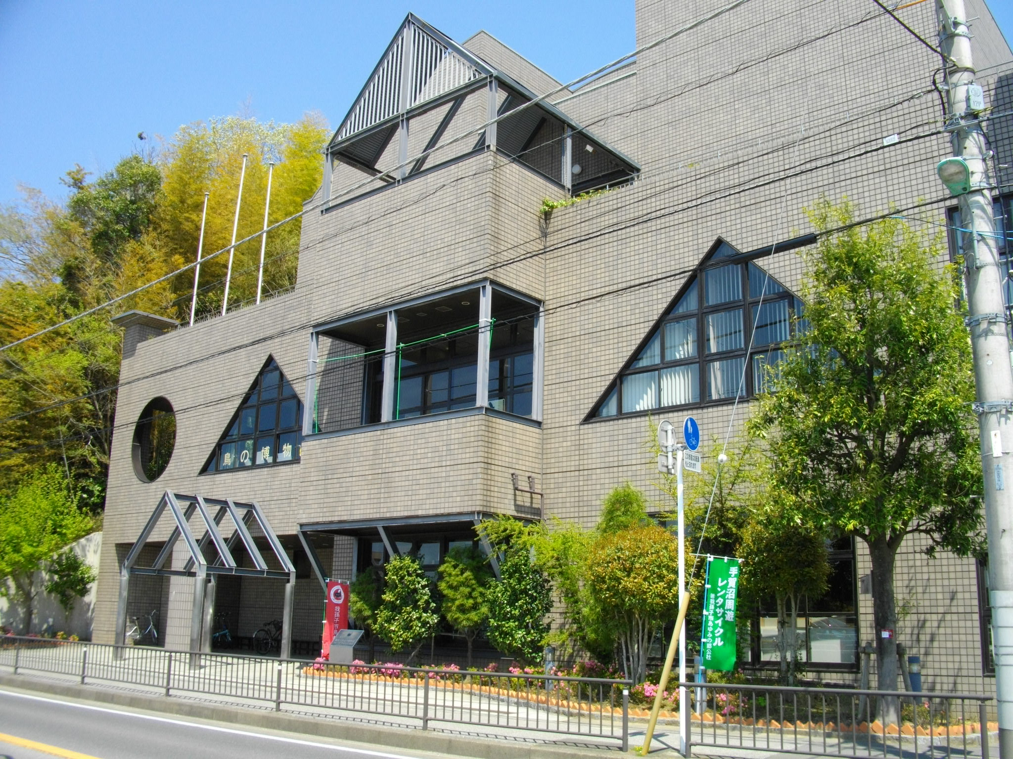 Abiko City Museum of Birds